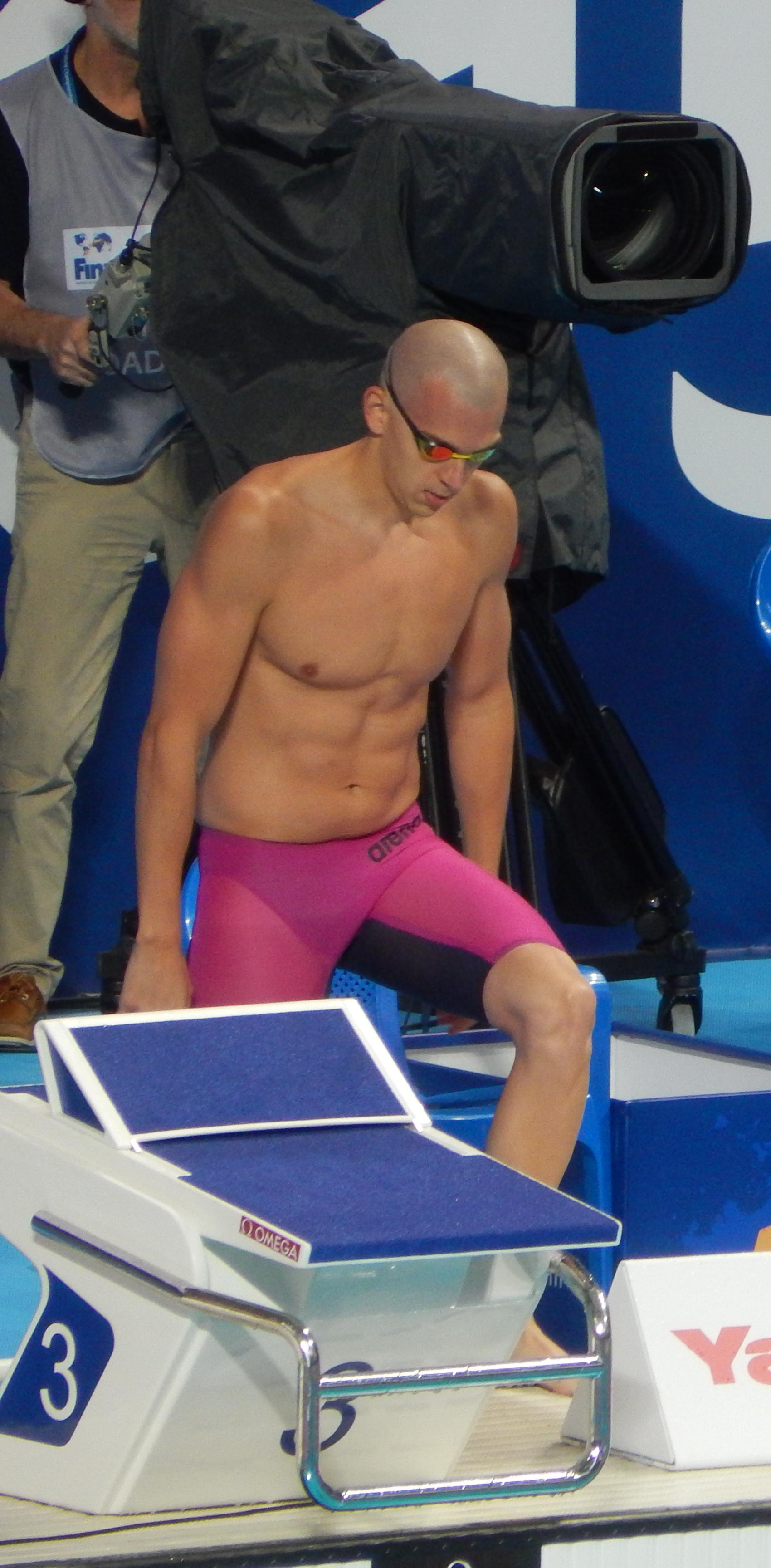 László Cseh before the 50m butterfly final in Kazan 2015